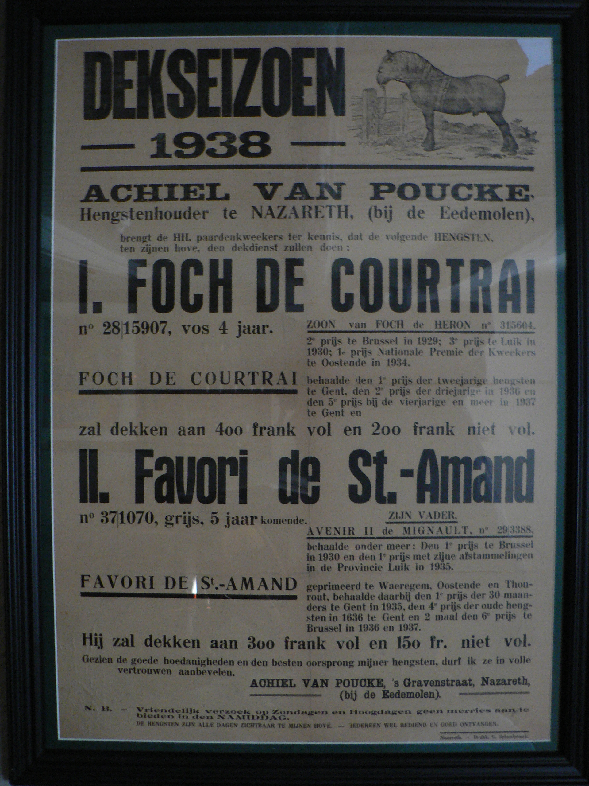 stud horse publicity